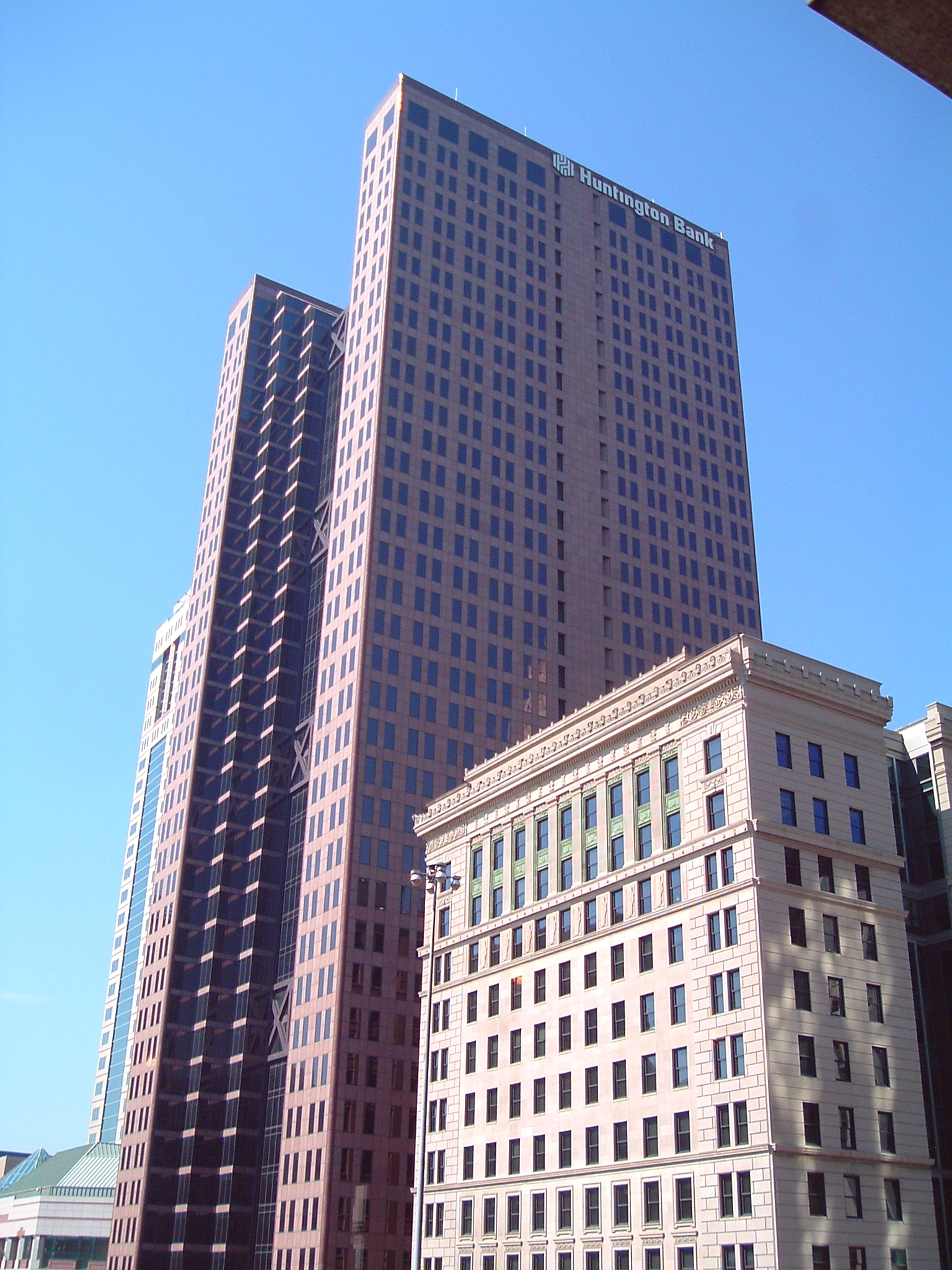 Huntington Center (skyscraper) and Building (foreground) in Downtown Columbus. Self made photo.